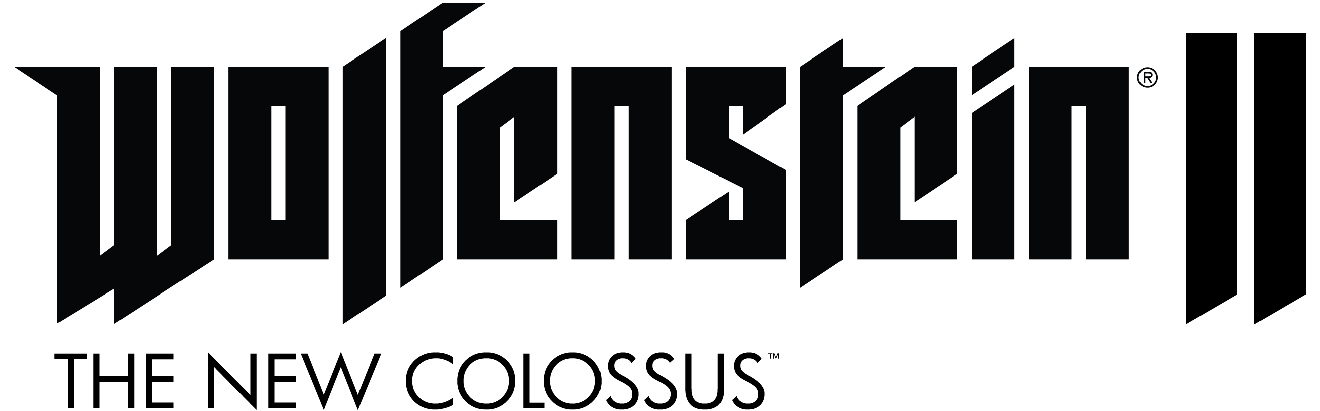 Logo for video game Wolfenstein II: The New Order. Modified logo for previous game created by T1m0b3_HSV, based on official lWolfenstein II’s logo.